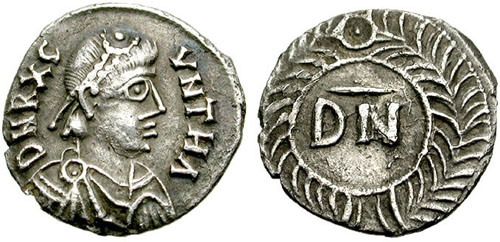 50-Denarius silver coin of Gunthamund vandal king (484-496). 1.05 g